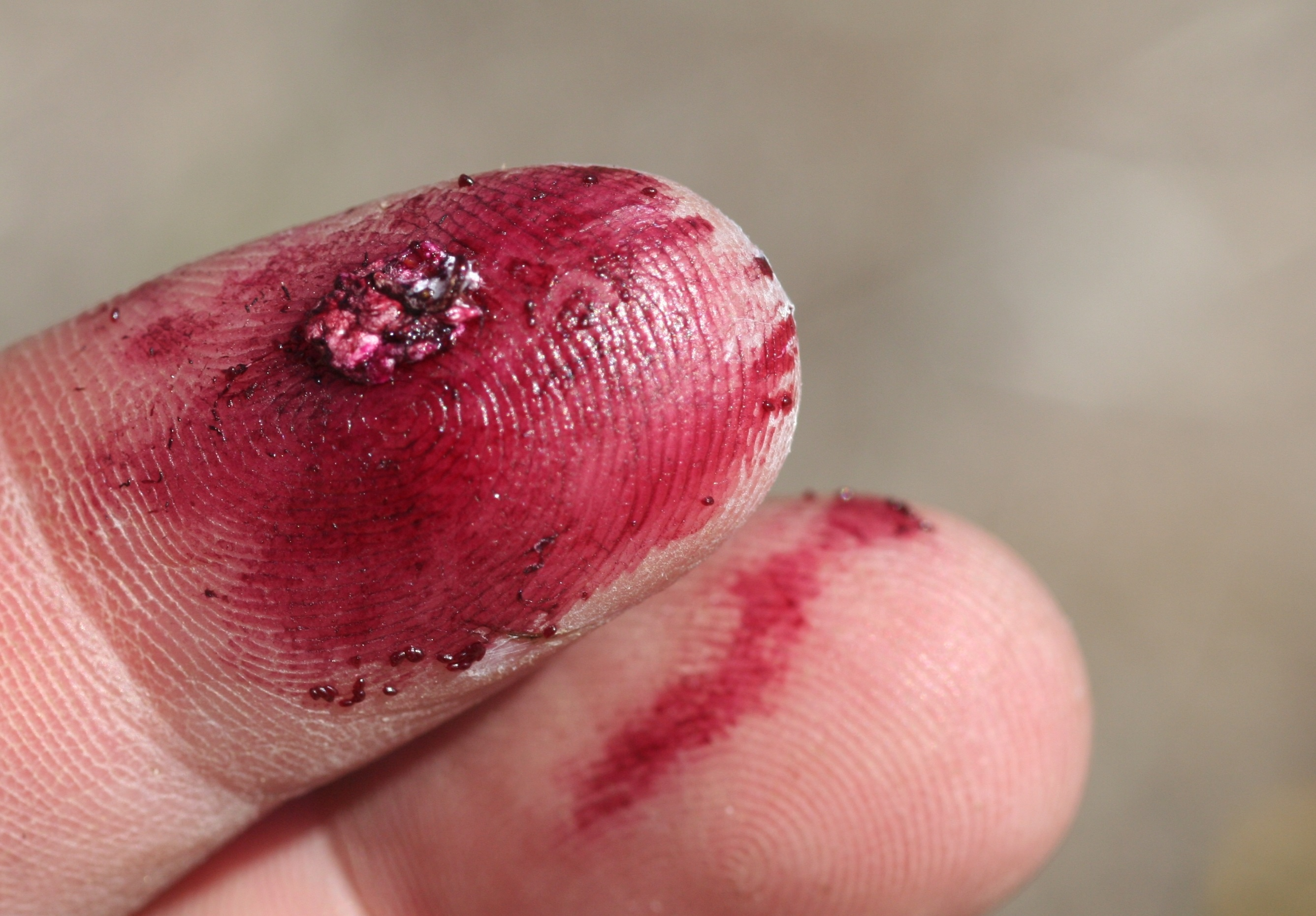 Dactylopius confusus crushed scale insect, Fort Collins, Colorado, United States